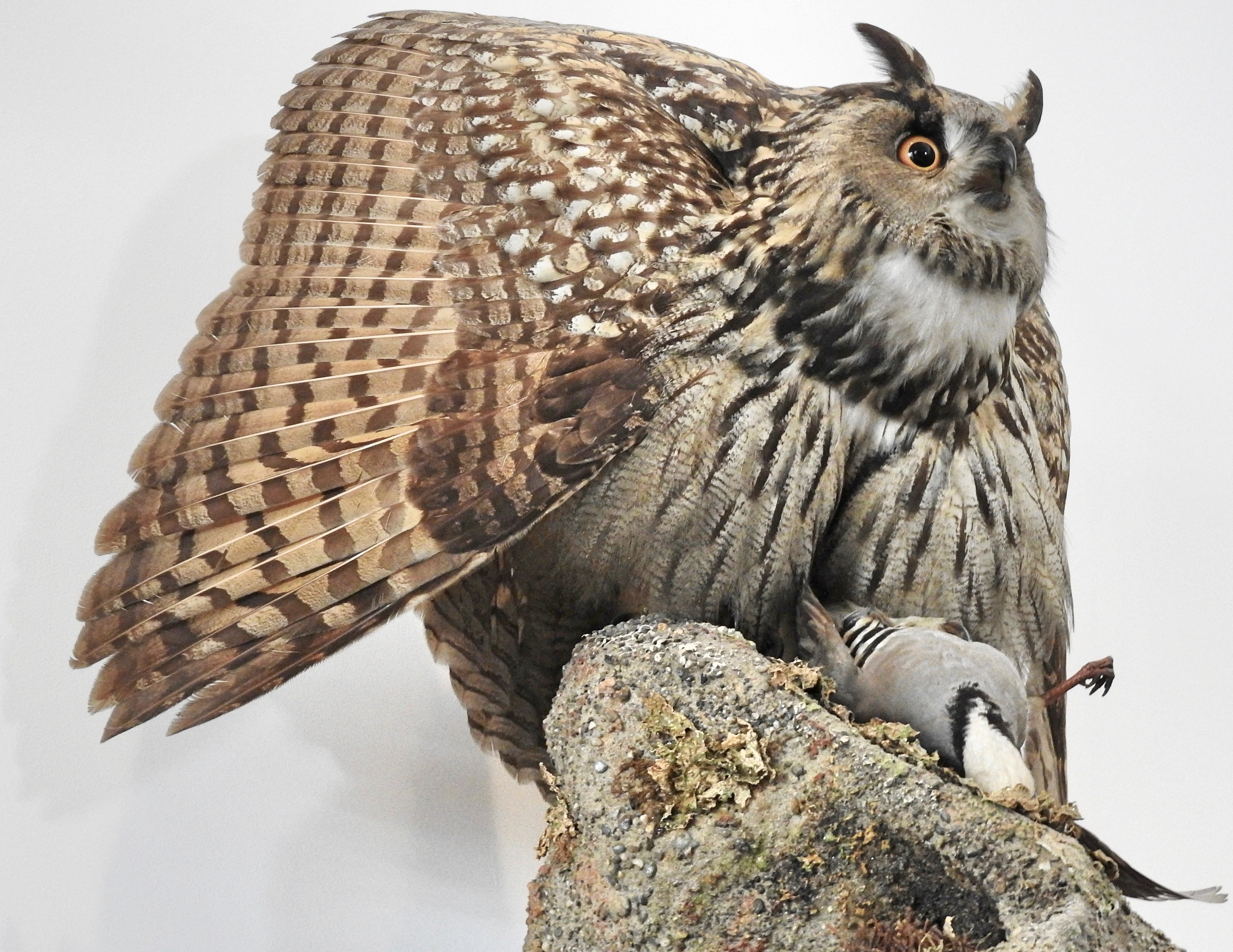 Preserved specimen: Defensive aagle owl with rock partridge. Made by Ernst Friedrich Zollikover, Nature Museum St.Gallen, Switzerland.